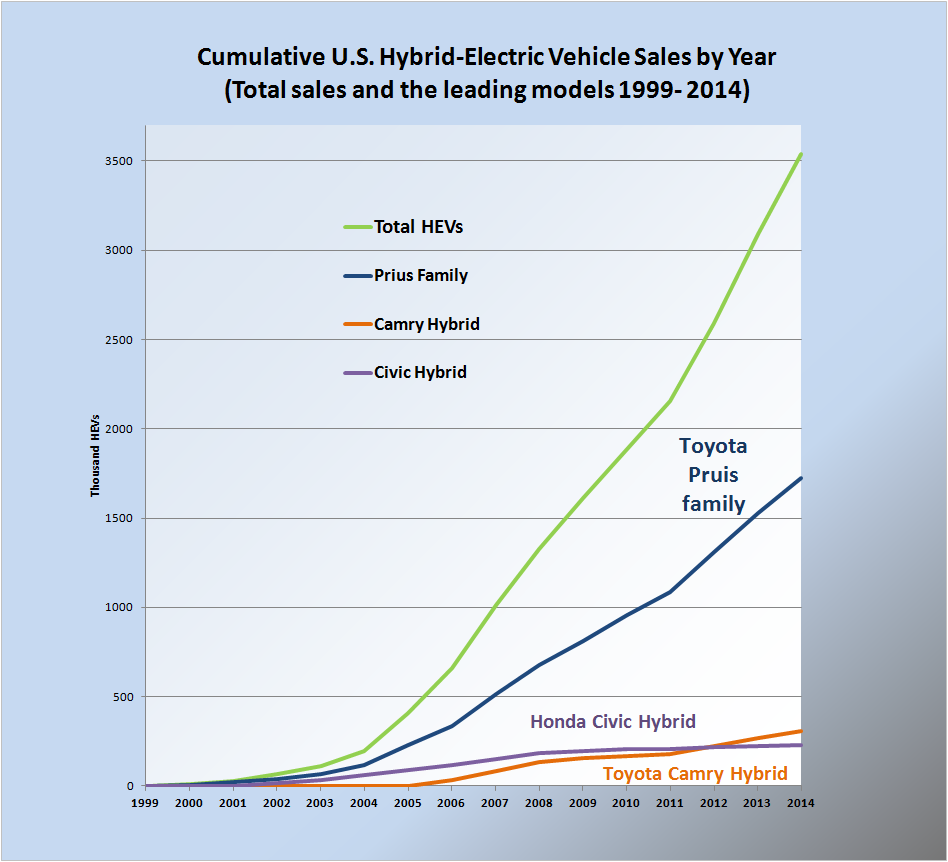 Graph showing historical trend of cumulative sales of US hybrids series 1999-2014. Data series taken from Alternative Fuels and Advanced Vehicles Data Center (US DoE), available here. Graphic built using data in the provided excel file for "HEV Sales by Model". Edited with Excel and converted to PNG with Photoshop Elements.